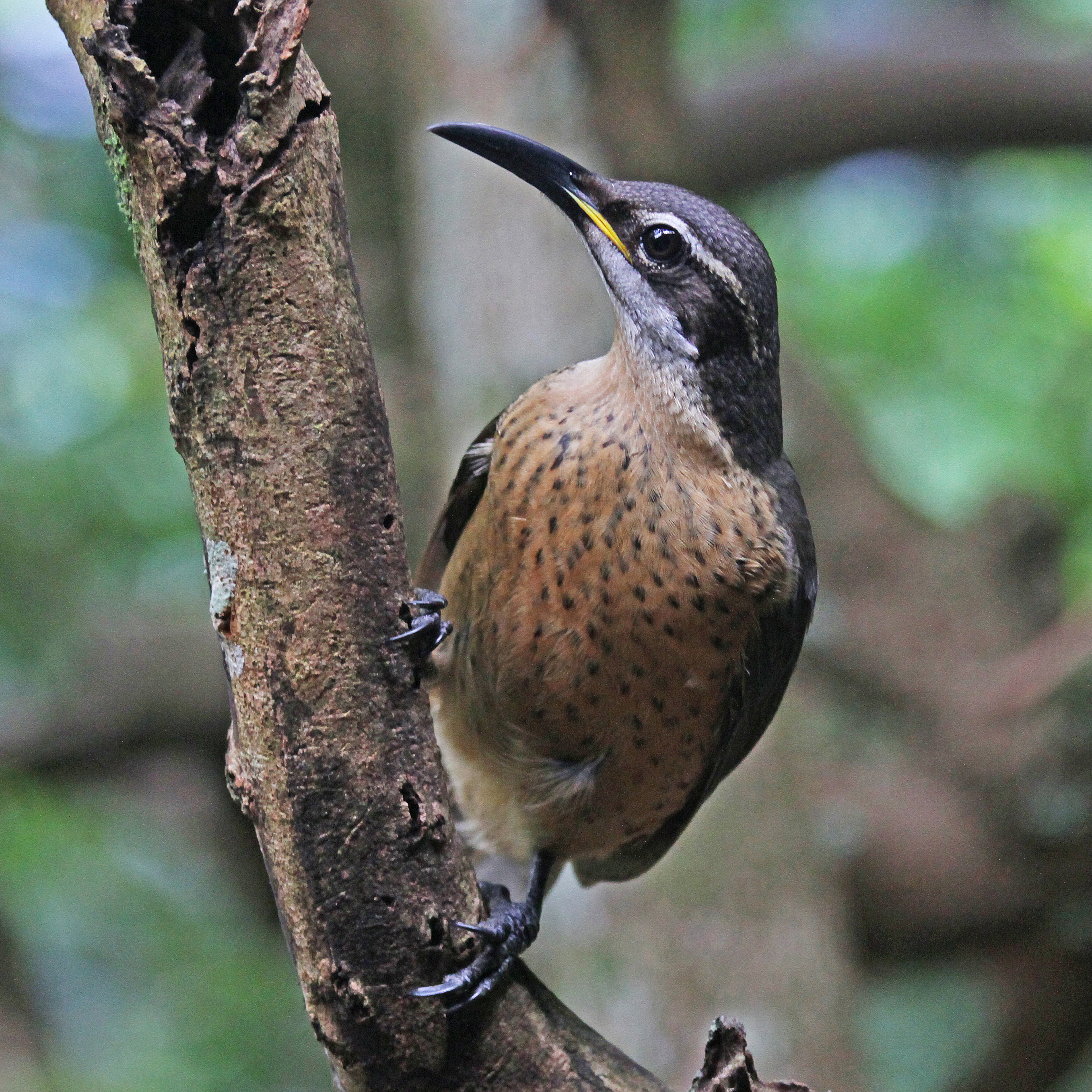 photo of female Victoria's Riflebird